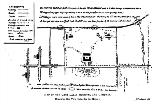 Scottish Women's Hospital - Map of the Czar Lazar Hospital (Serbian Military Hospital) and grounds, in Kruševac. Drawn by Miss Vera Holme. (1915)